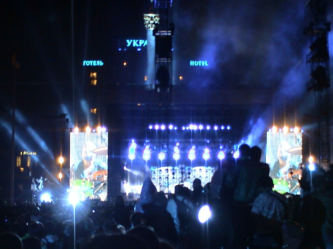 Paul McCartneys Independence Concert in Kyiv